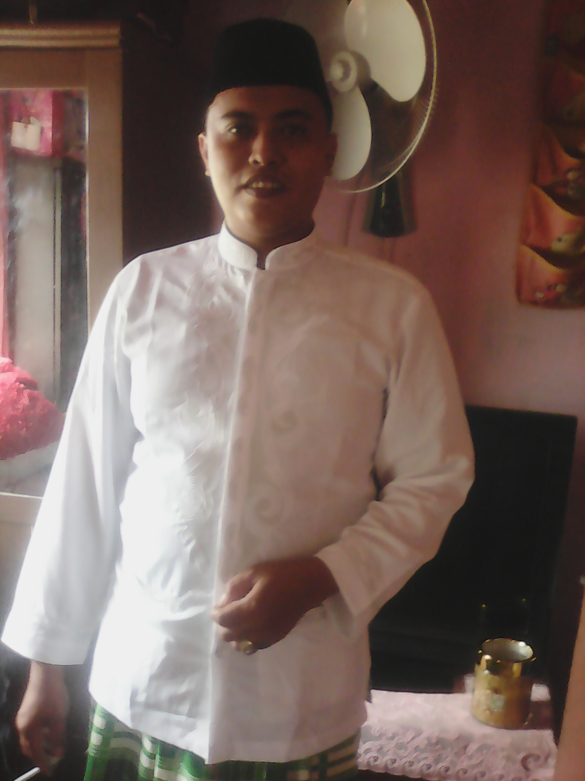 foto saya